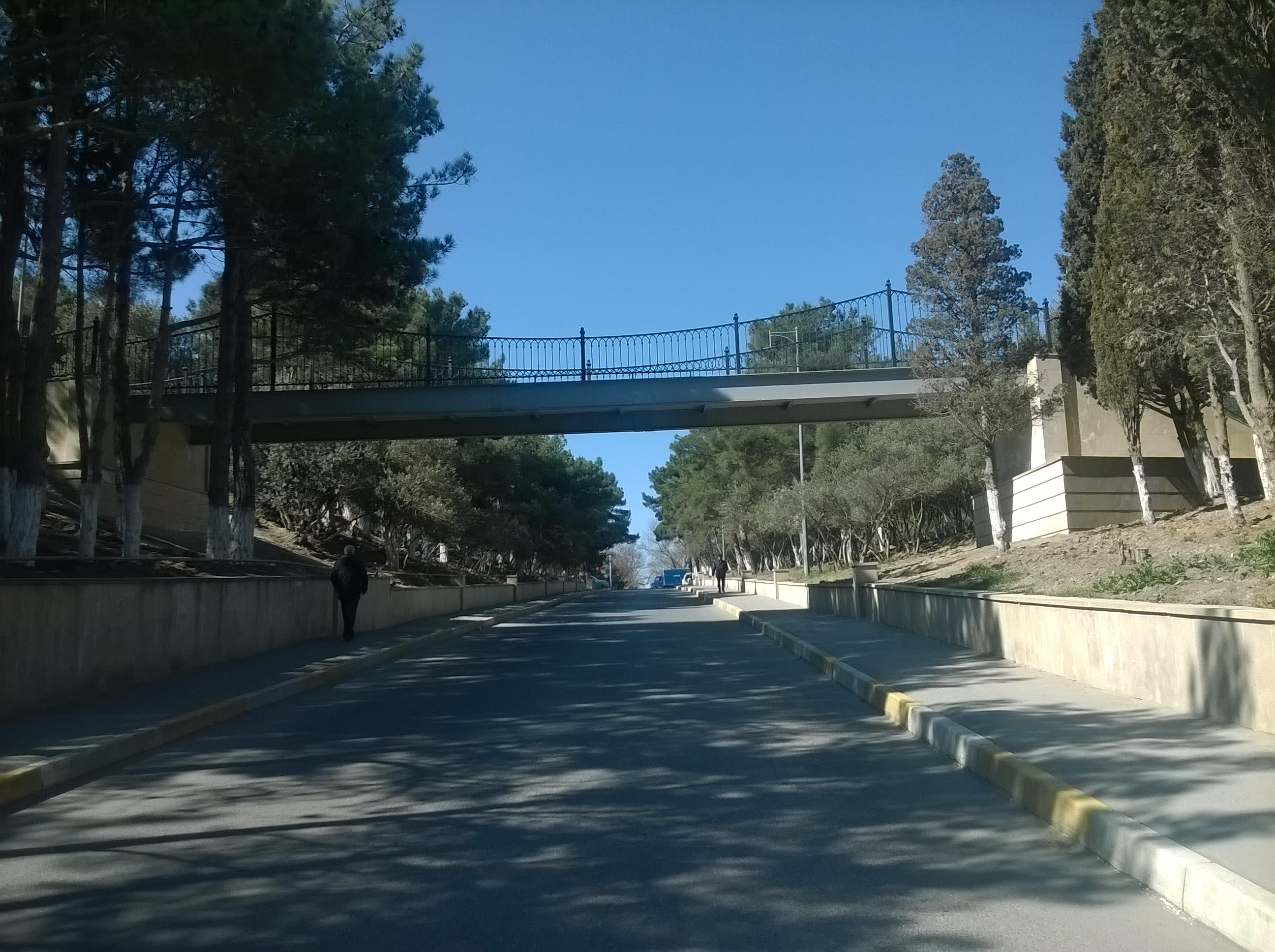 Sevgililər körpüsü (Sumqayıt)